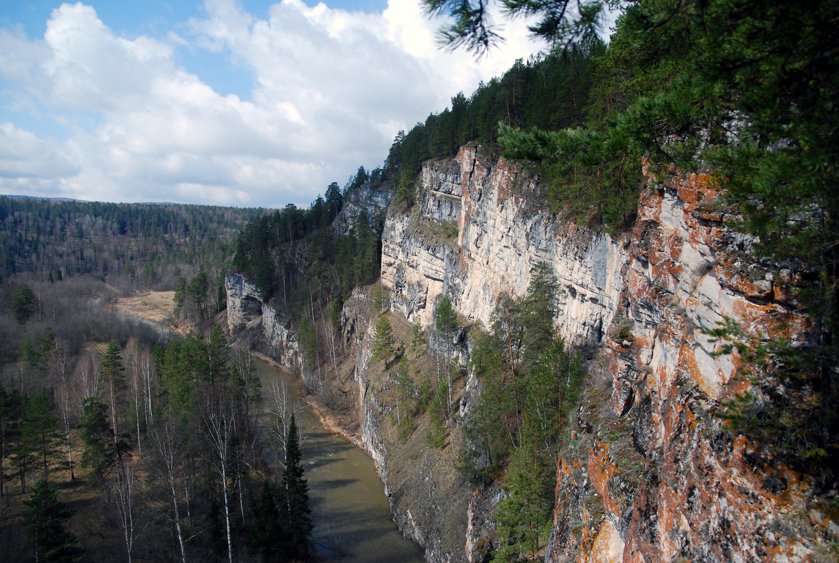 Sim river and Ignateva cave